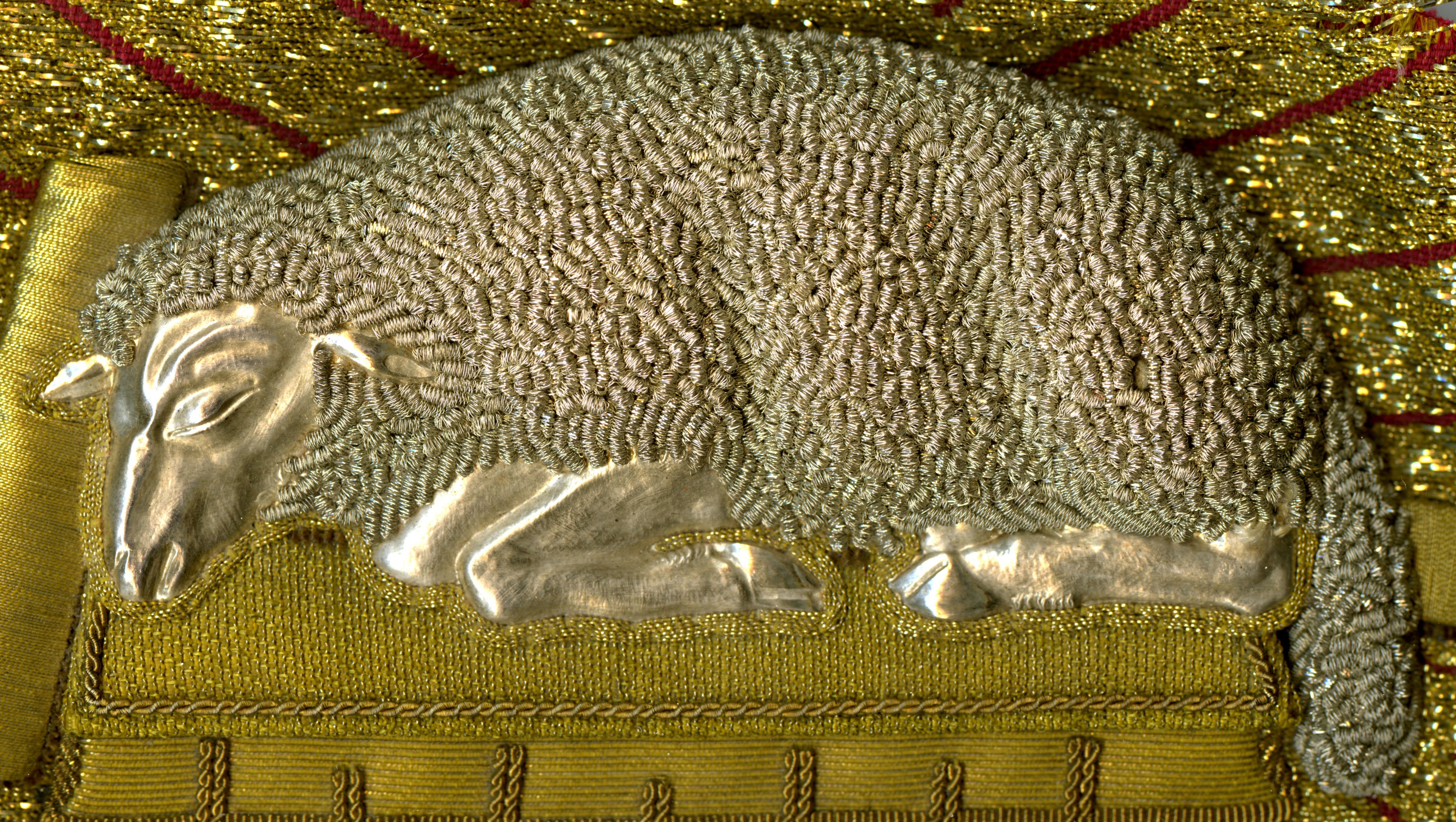 Lamb in silver bullion